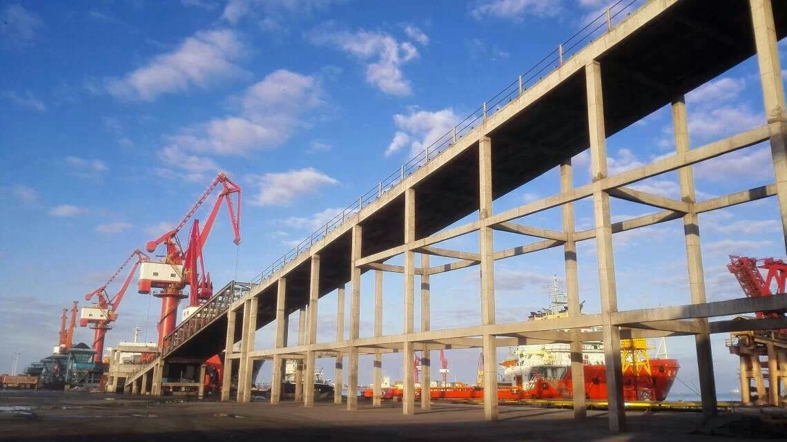 Basuo Port